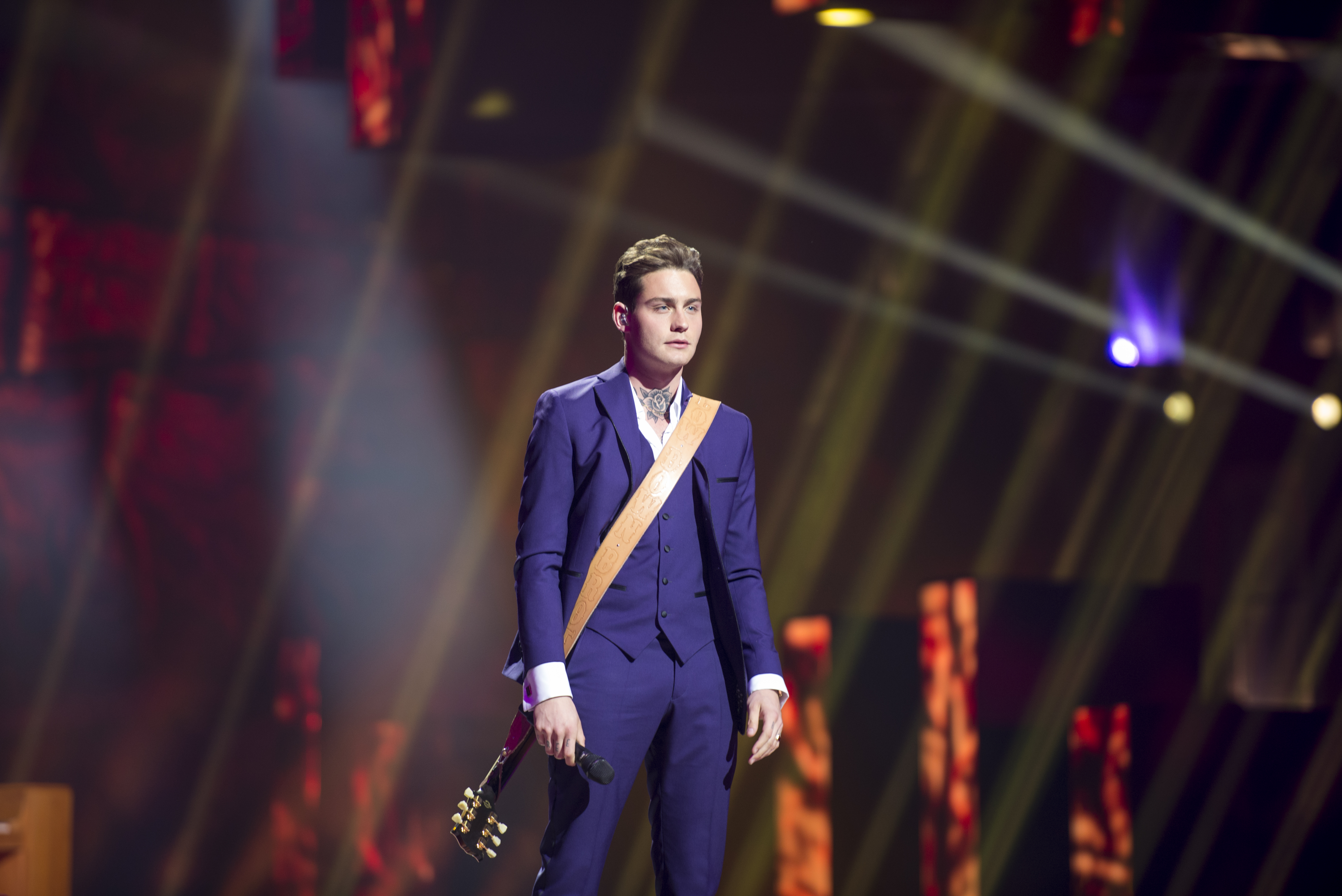 Douwe Bob representing Netherlands with the song "Slow Down" during a rehearsal before the first semi final of the Eurovision Song Contest 2016 in Stockholm. (Help translate this text)